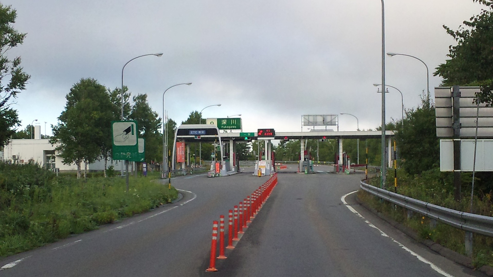 Fukagawa interchange (toll gate), Hokkaido, Japan